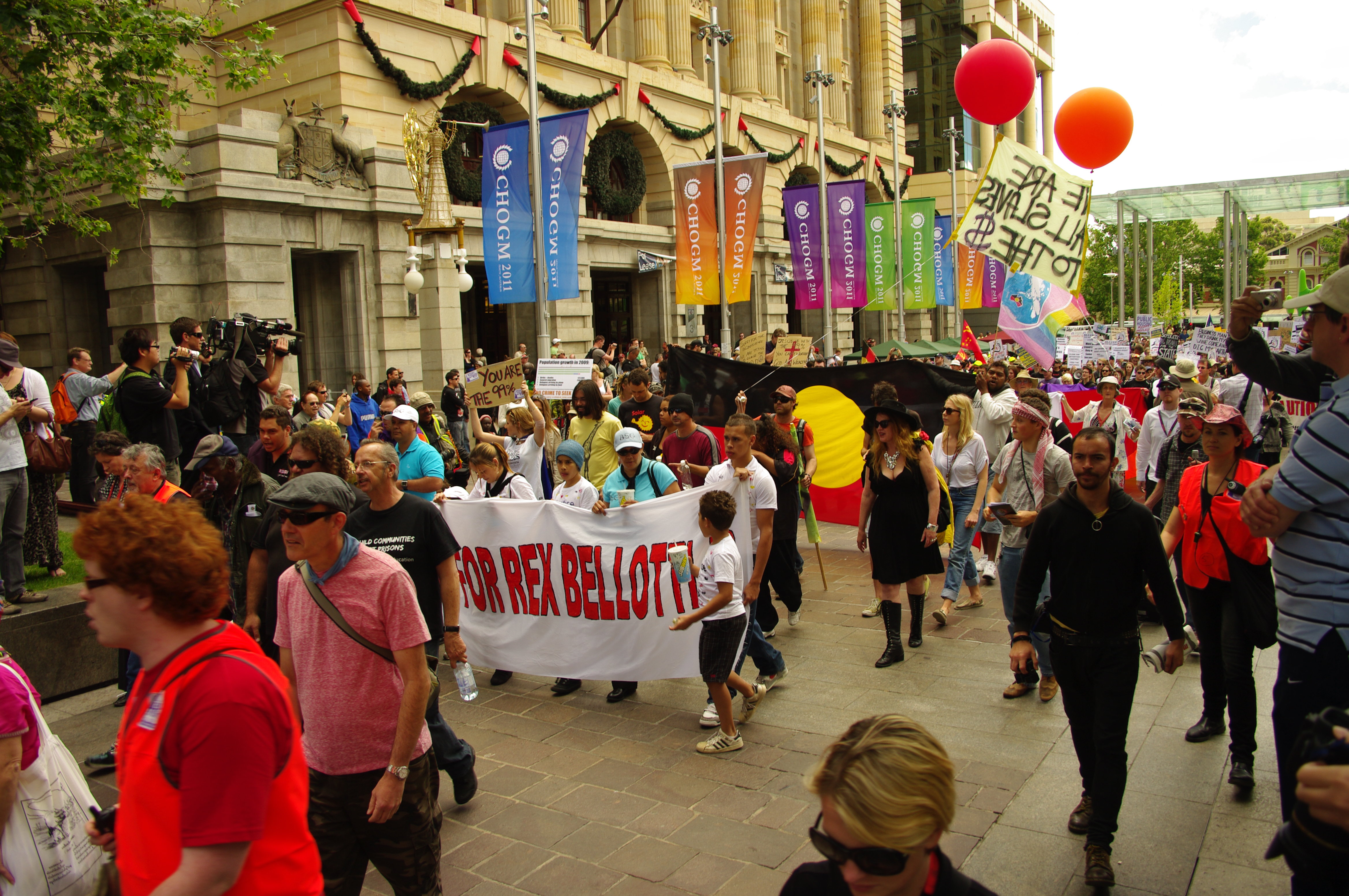 CHOGM 2011, protest that took place on the opening day